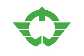 Flag of Kashiba Nara